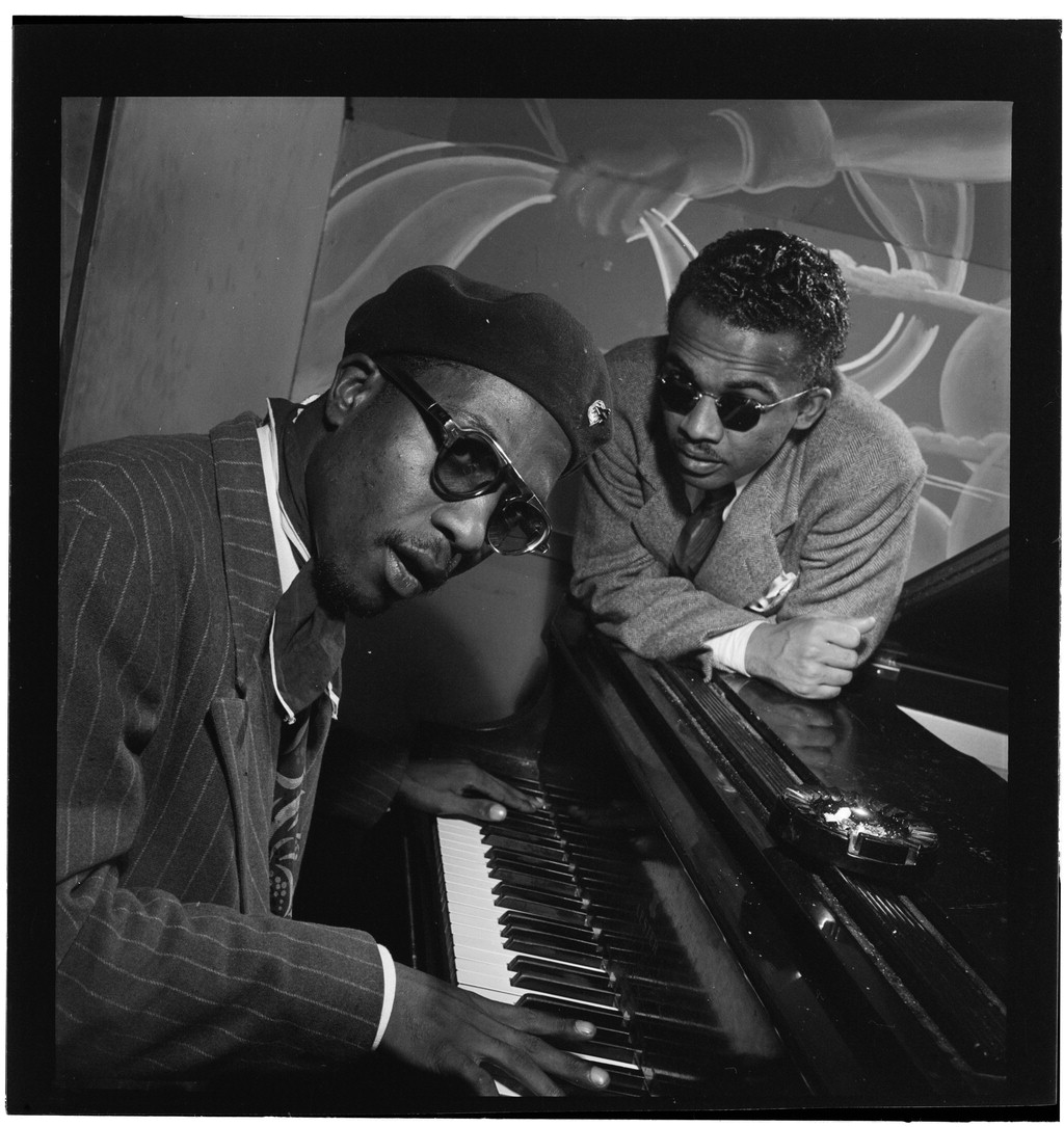 Thelonious Monk and Howard McGhee at Minton's Playhouise, ca. September 1947. Photography by William P. Gotlieb.